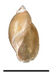 Photo of an apertural view of a shell of Radix rubiginosa. Scale bar is 10 mm.